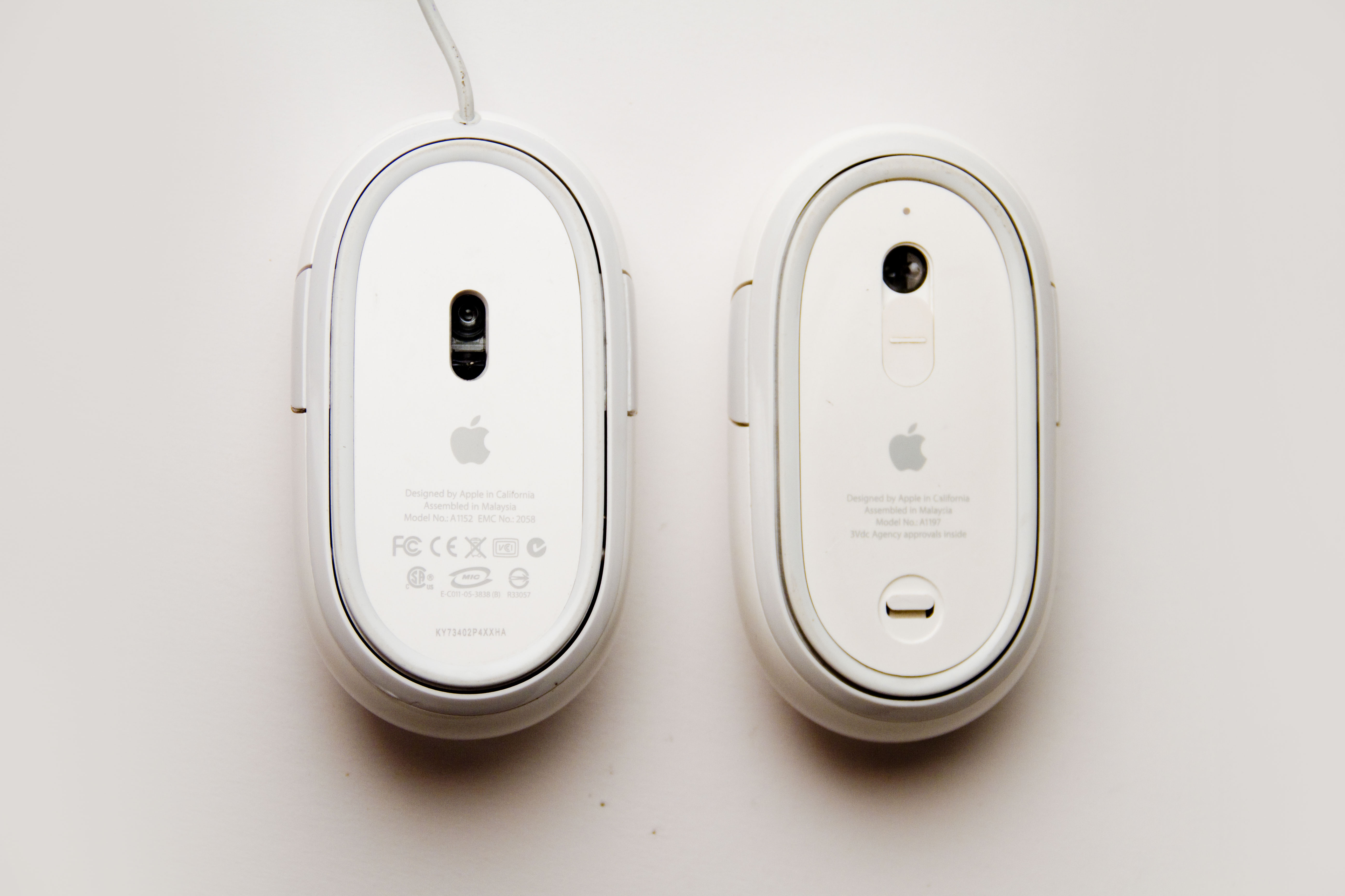 Apple Wired and Wireless Mighty Mouse Bottom Side by Side Comparison